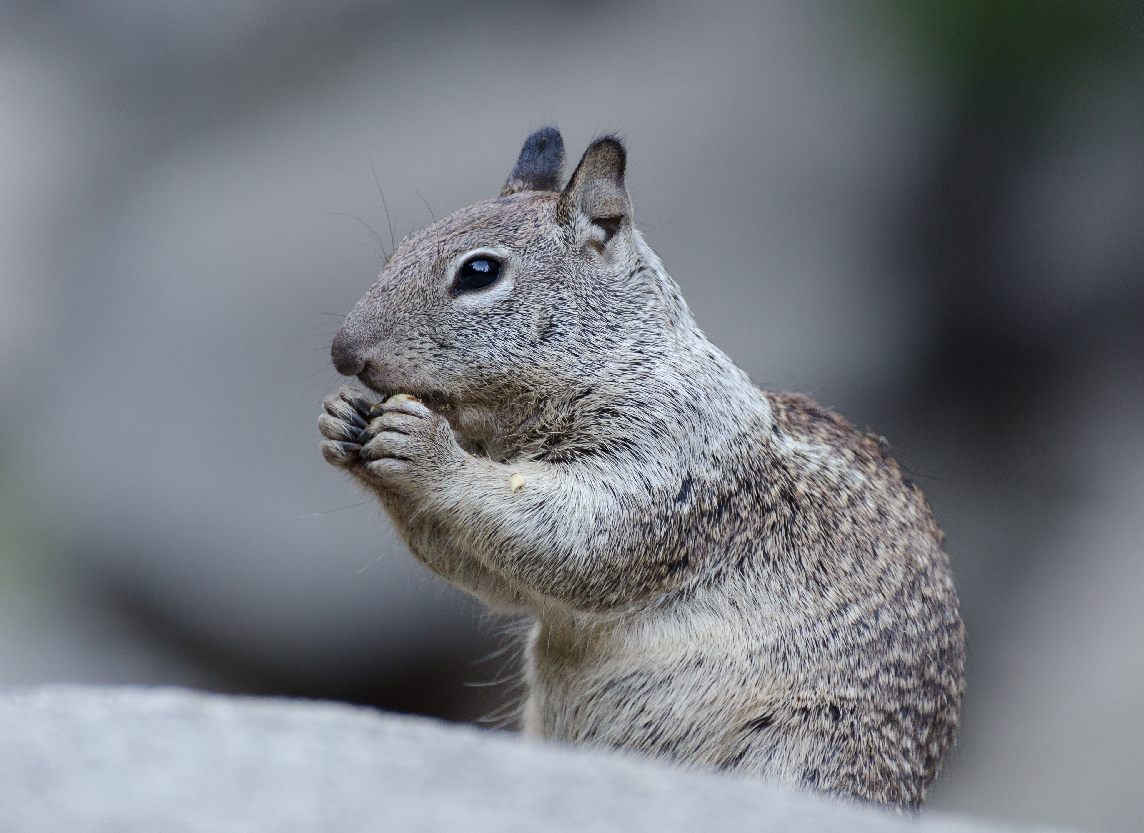 California Ground Squirrel (Otospermophilus beecheyi) photographed in Yosemite National Park